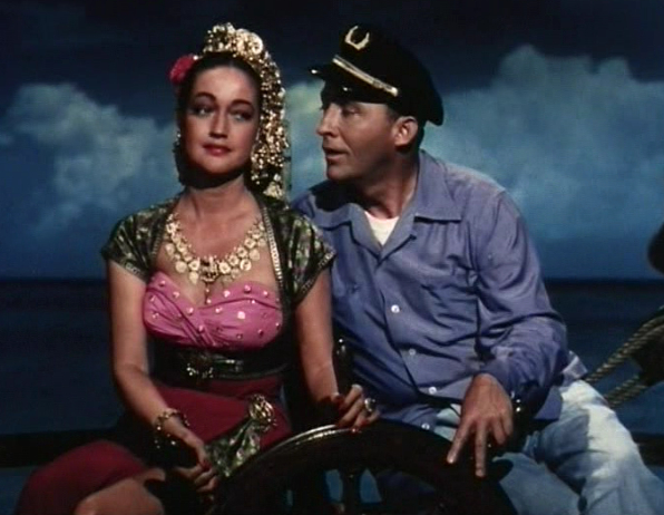 Cropped screenshot of Dorothy Lamour and Bing Crosby from the film Road to Bali.